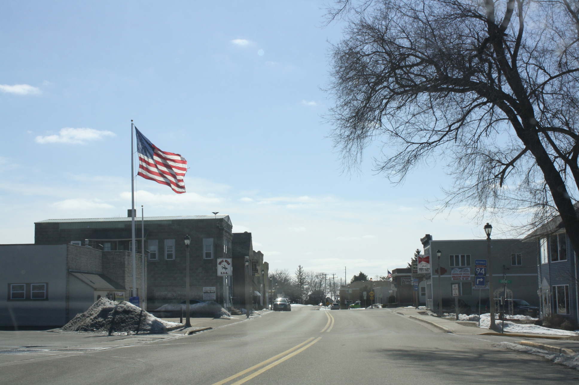 Looking north at downtown Sullivan, Wisconsin on U.S. Route 18.